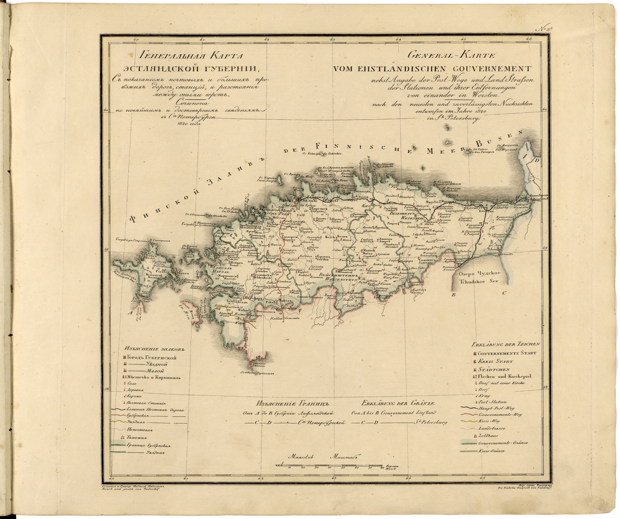 This 1820 map of Estland Province is from a larger work, Geographical atlas of the Russian Empire, the Kingdom of Poland, and the Grand Duchy of Finland (Geograficheskii atlas Rossiiskoi imperii, tsarstva Pol'skogo i velikogo kniazhestva Finliandskogo), containing 61 maps of the Russian Empire. Compiled and engraved by Colonel V. P. Piadyshev, it reflects the detailed mapping carried out by Russian military cartographers in the first quarter of the 19th century. The map shows population centers (six gradations by size), inns, postal stations, roads (four types), provincial and district borders, and customs houses. Distances are shown in versts, a Russian measure, now no longer used, equal to 1.0668 kilometers. Legends and place names are in Russian and German. The territory depicted on the map corresponds to present-day Estonia.